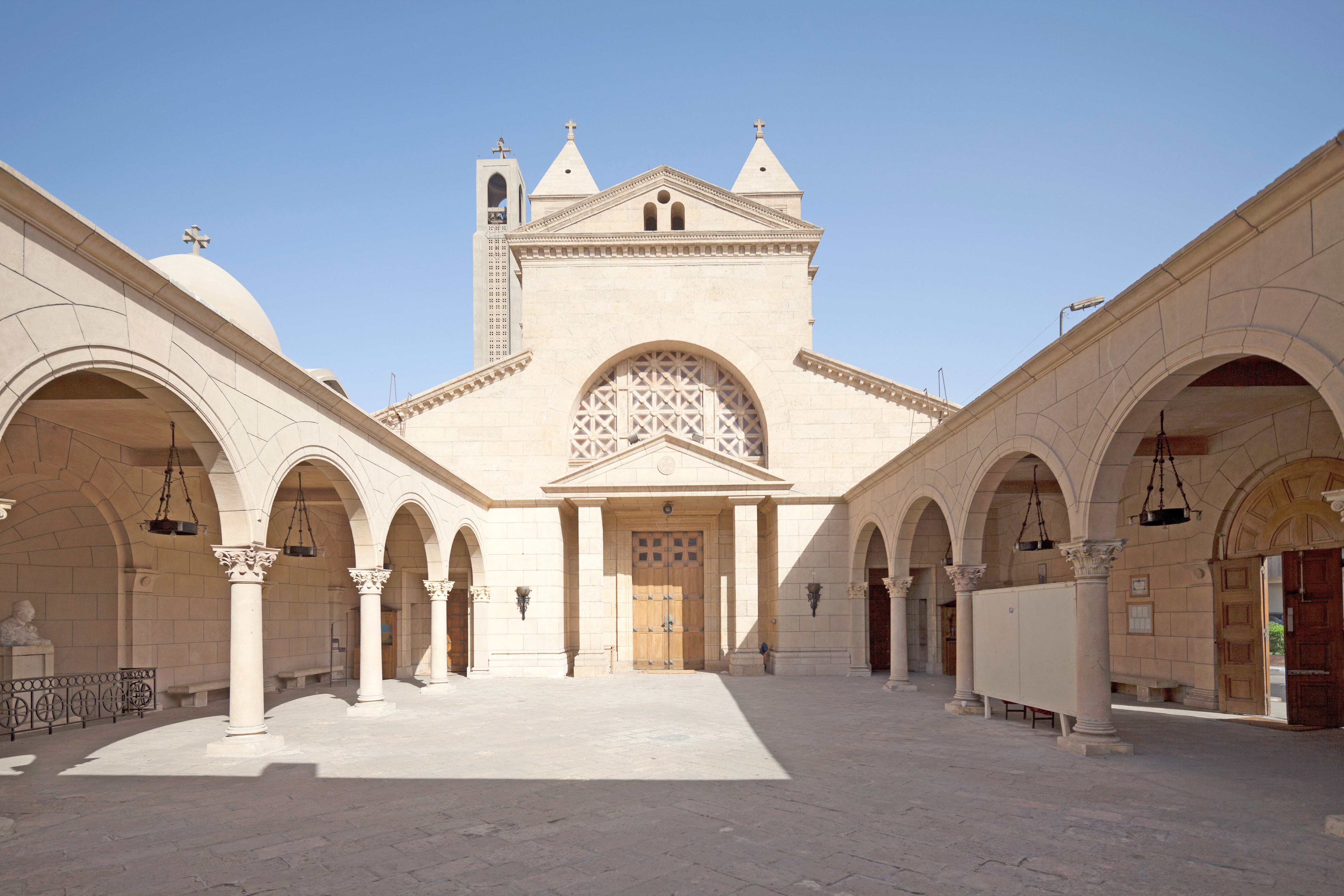 Entrance of the Church of SS Peter and Paul (Boutrosiya), el-'Abbasiya, Cairo, Egypt